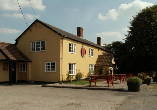 'The Red Rose' inn, Lindsey Tye, Suffolk.